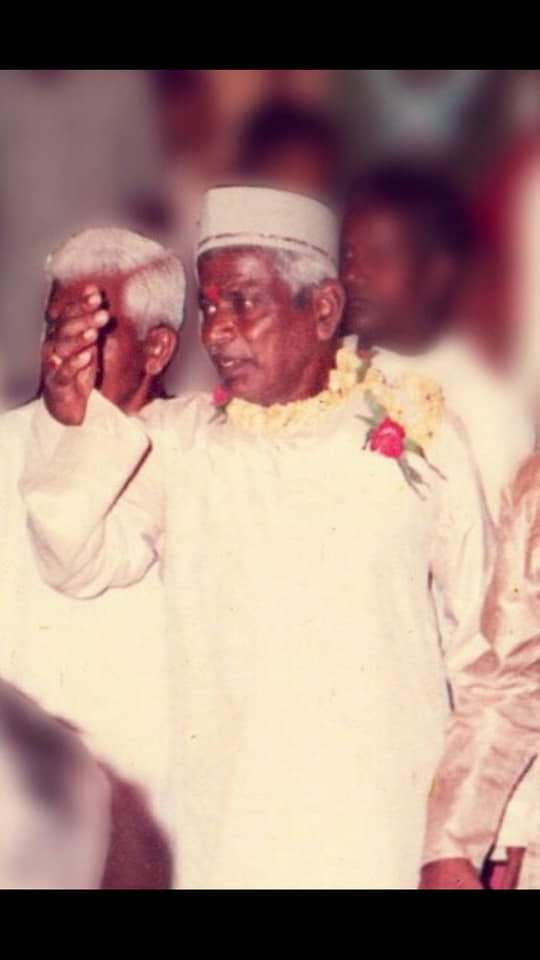 Salandr Nyayam Chowdhary Malliaha Yadav